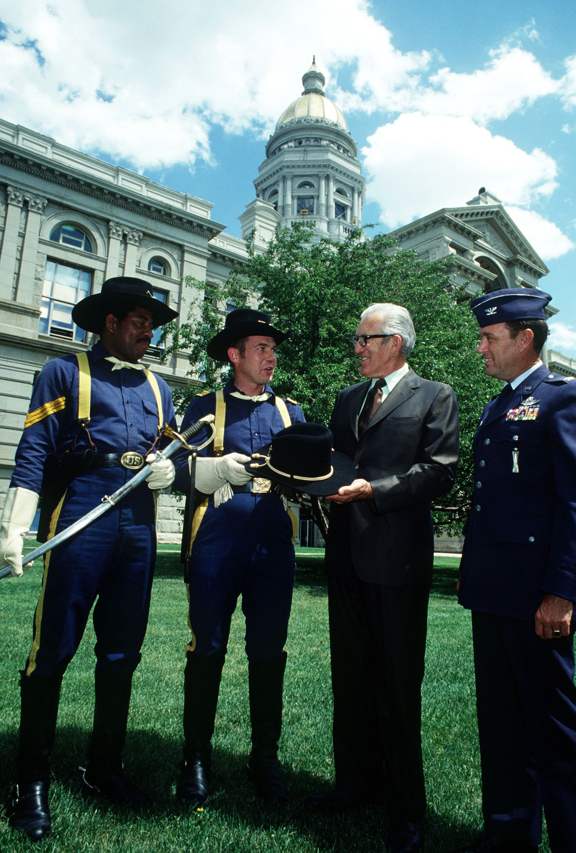 "Major David Vaughn and Staff Sergeant Jay B. Brown (wearing 5th Cavalry uniforms) present a hat and saber to Governor Ed Herschler of Wyoming, as Colonel James M. Cowan, Strategic Missile Wing commander, looks on. Location: FRANCIS E. WARREN AIR FORCE BASE, WYOMING (WY) UNITED STATES OF AMERICA (USA)"